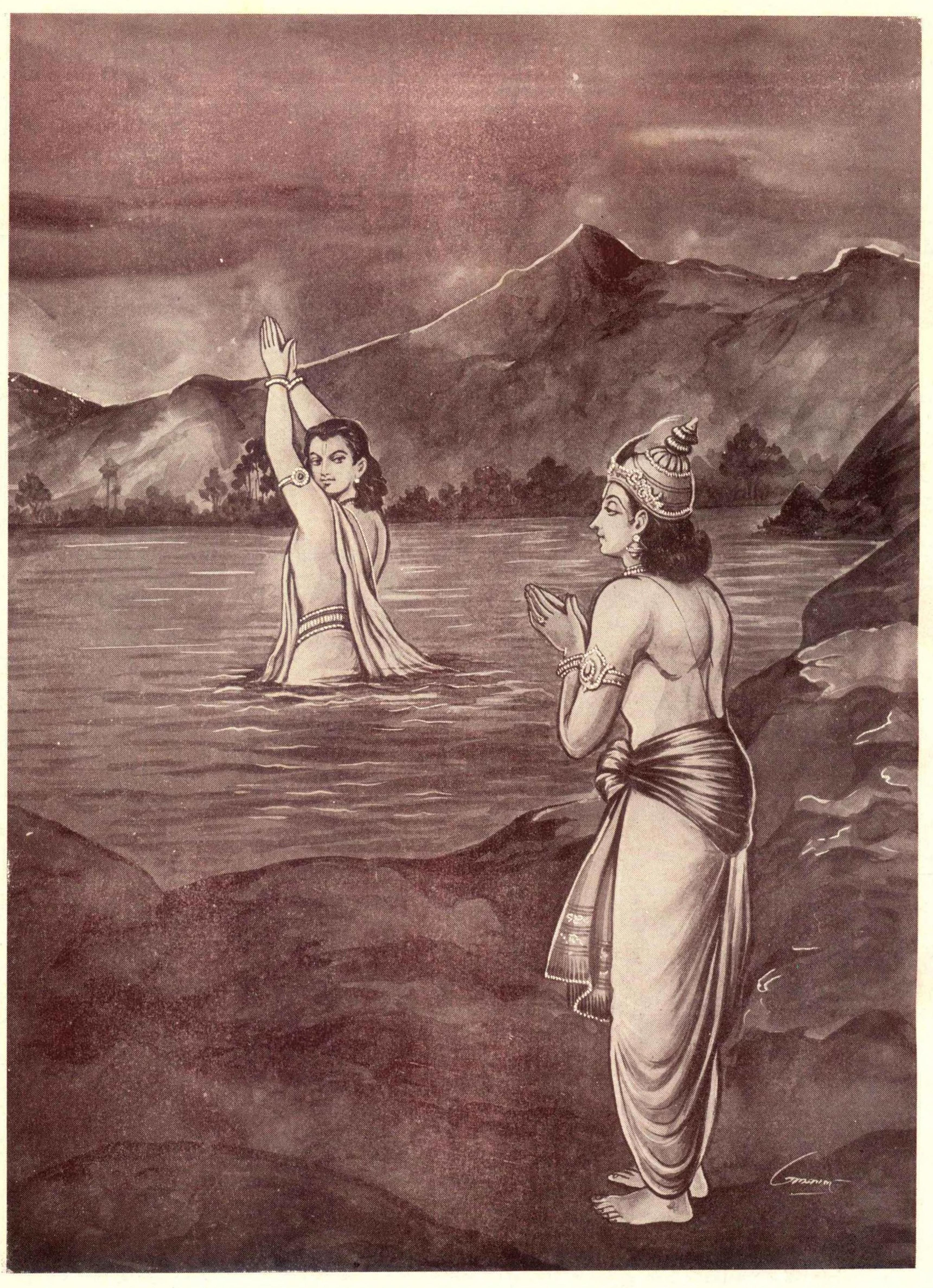 Valmiki Ramayan I Gita Press Gorakhpur by MahaMuni Usage Topics Sanskrit, "महामुनि का संग्रह", "Pratiek-Lucknow" Collection opensource Language Sanskrit Indological Books , 'Valmiki Ramayan I - Gita Press Gorakhpur.pdf' Identifier ValmikiRamayanIGitaPressGorakhpur Identifier-ark ark:/13960/t3908c40s Ocr language not currently OCRable Ppi 600 Scanner Internet Archive HTML5 Uploader 1.6.3